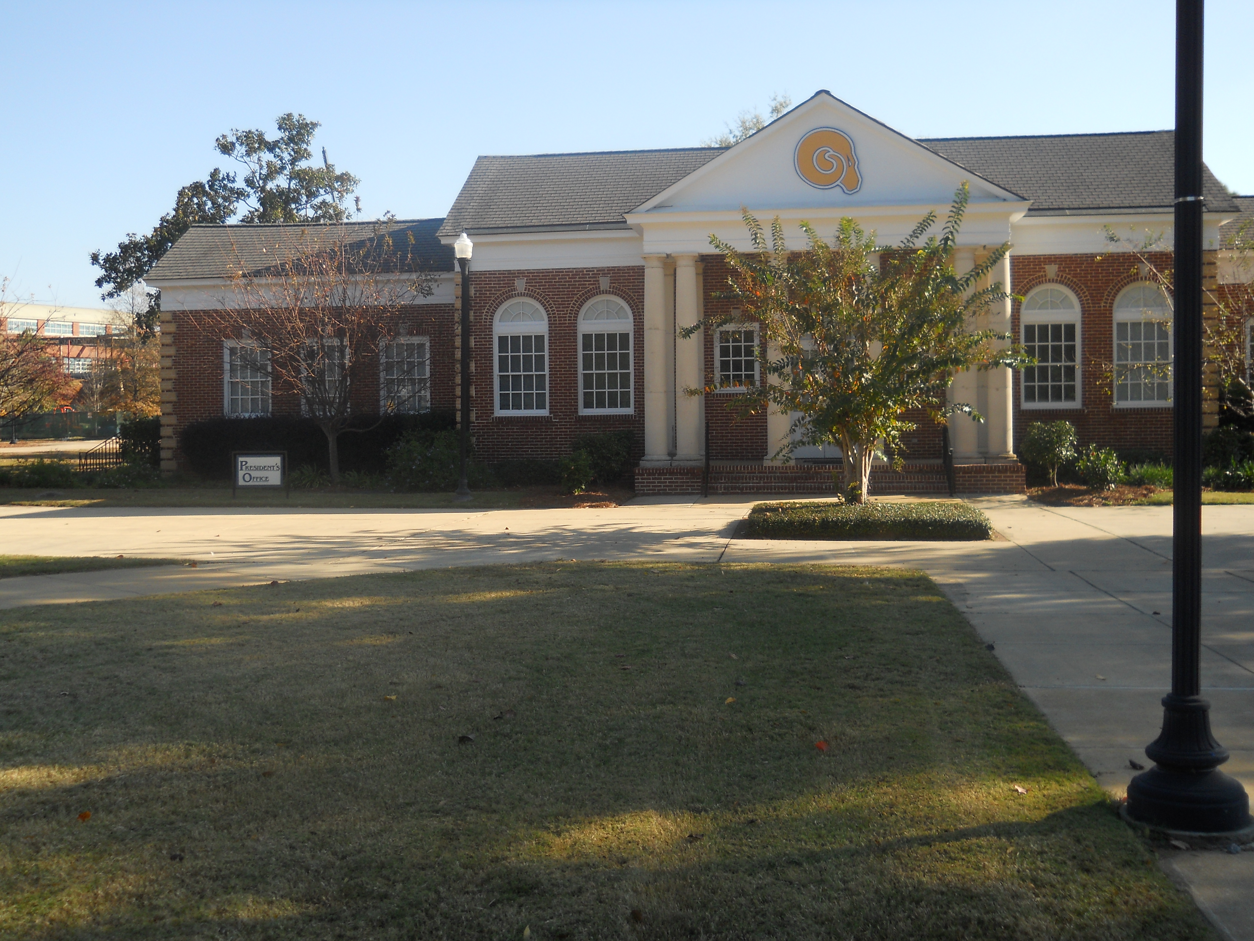 Albany State University President's House